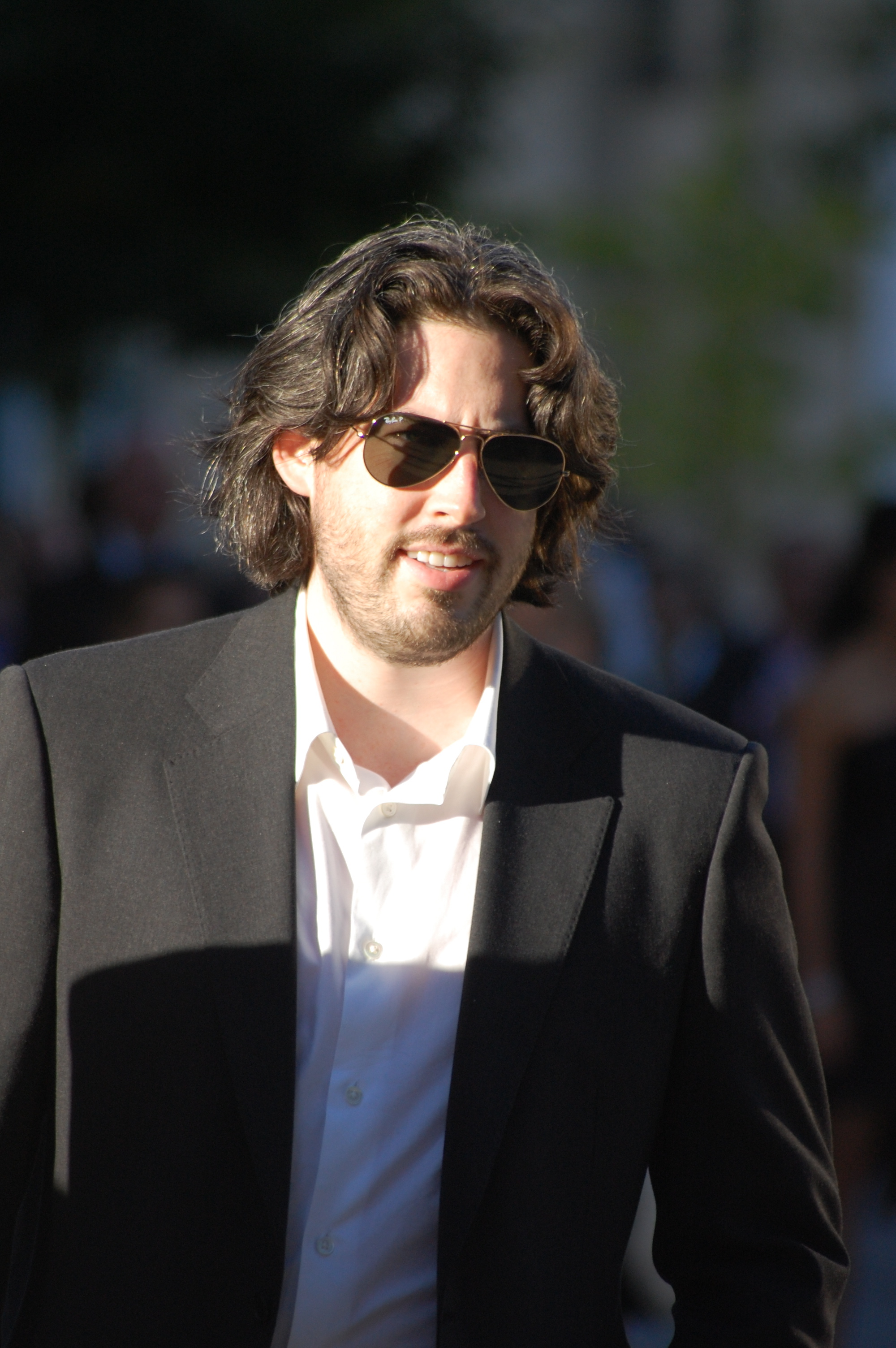 Chloe premiere - Roy Thompson Hall - September 13, 2009